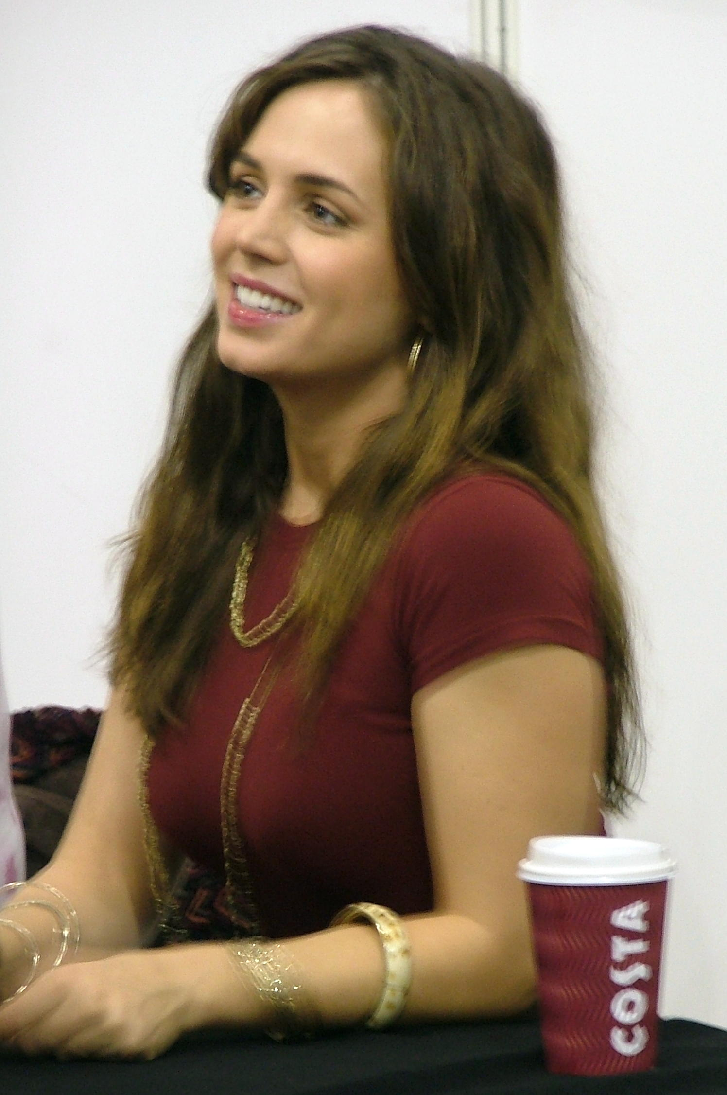 Eliza Dushku at the London Expo in London England